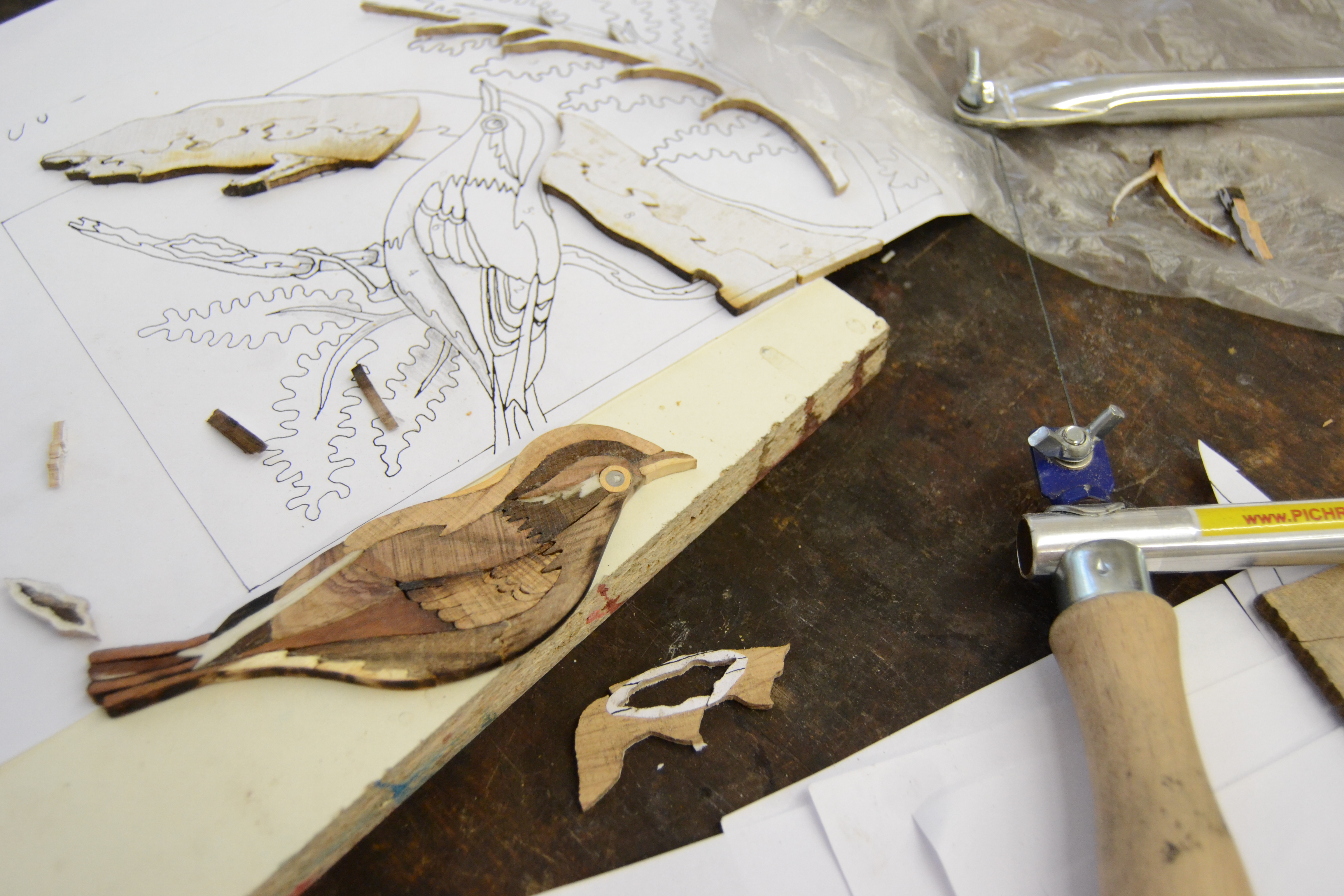 Photo of unfinished fret sawed intarsia.